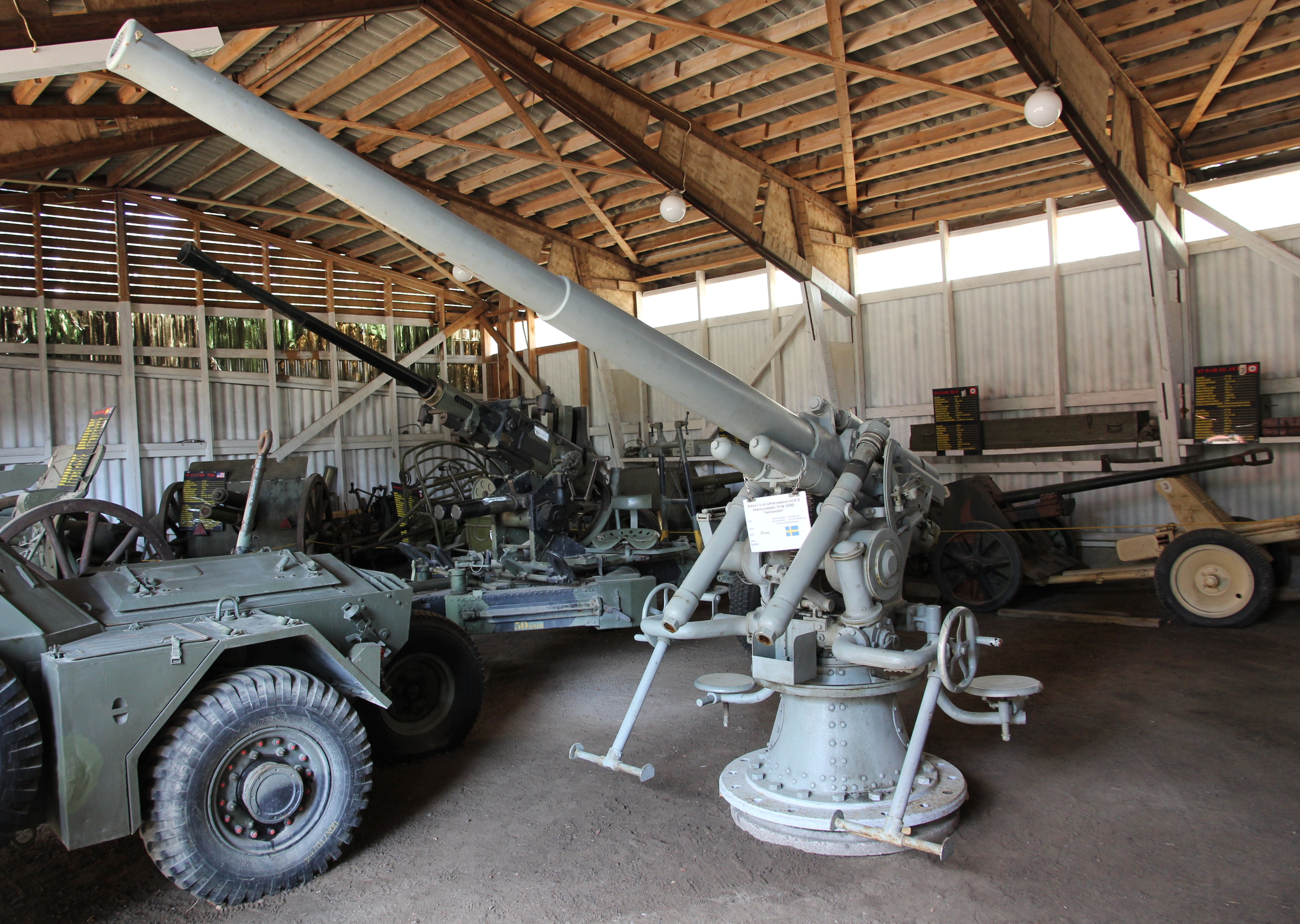 Bofors 75 mm model 1930 anti-aircraft gun in the Cannons of Torp museum. Originally ordered by Siam (Thailand) as dual-purpose naval gun, they were purchased by Finland during Winter War. Finnish designation 75 ItK/30 BS.